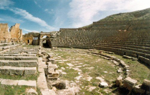 Description=Ancient Roman theater in Khamissa — Algeria. Photo taken by M.GASMI 2005. Source= Own photograph by uploader. Author= M.GASMI.